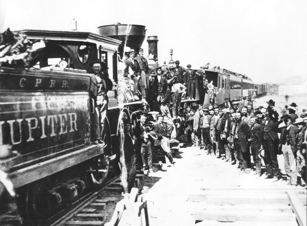 Celebration of completion of the First Transcontinental Railroad at what is now Golden Spike National Historic Site, Promontory Summit, Utah.